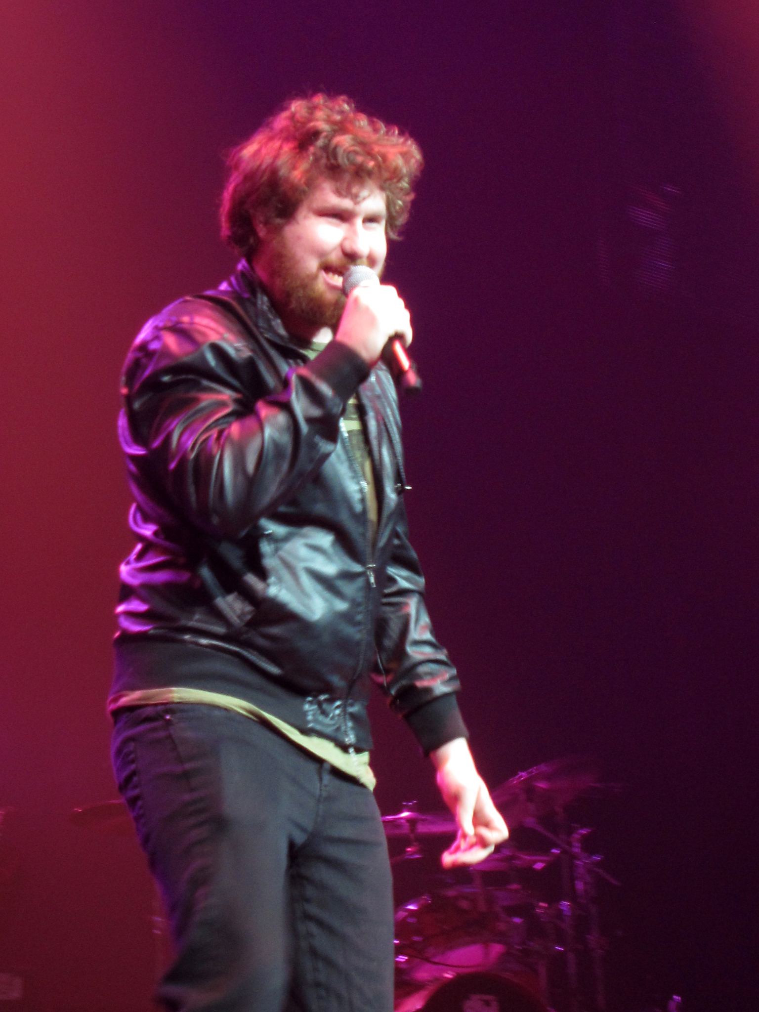 Casey Abrams performing.